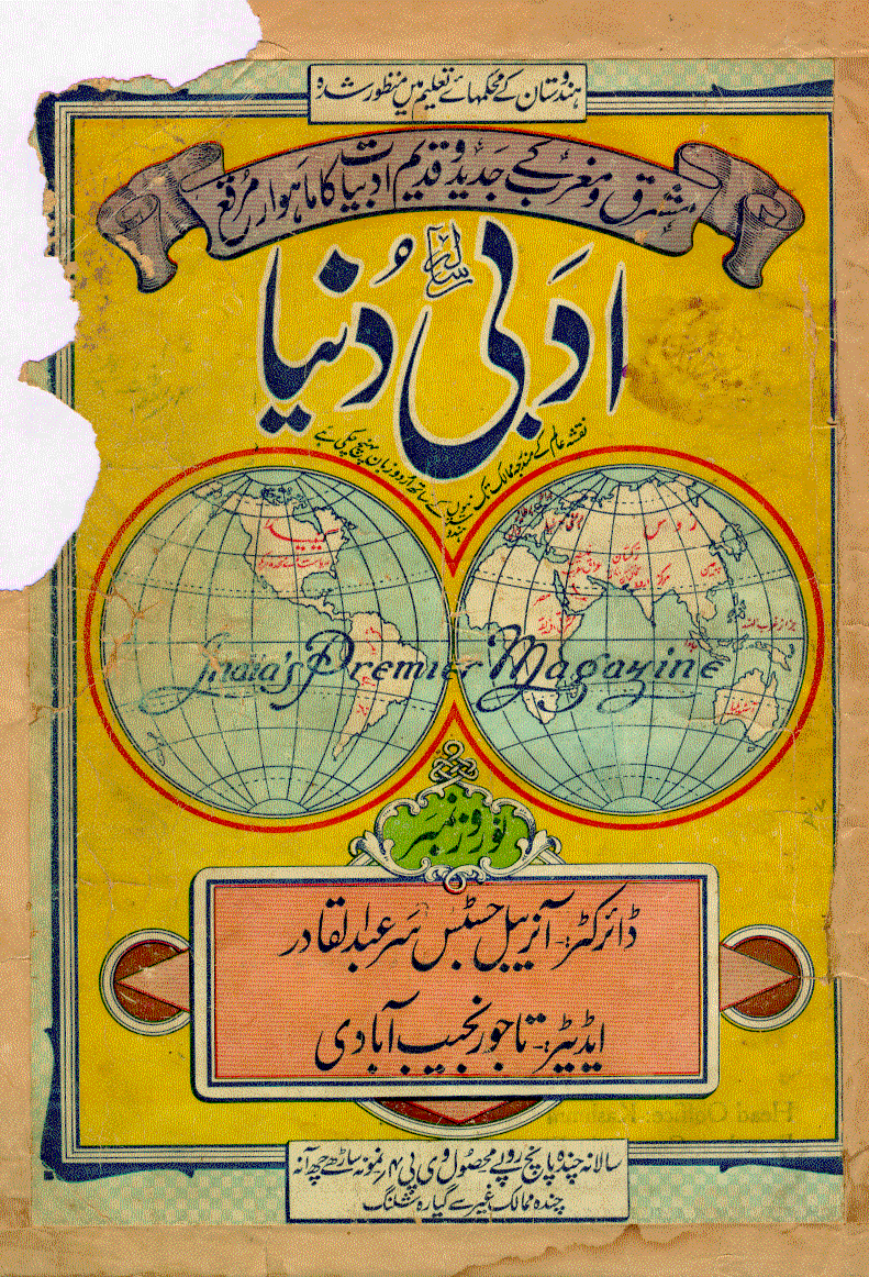 Adabi Duniya (Literary World), "India's Premier Magazine" (Nauroz namber, 1932) (downloaded Oct. 1999) "Approved by the Hindustani Department of Education, A Monthly Magazine of Ancient and Modern Eastern and Western Literature, ADABI DUNIYA (Literary World). [Below the title and just above the two globe-halves:] The Urdu language has already arrived, with Hindustanis, in the below-indicated countries on the map. India's Premier Magazine. Nauroz Number. Director, Honorable Justice Sir `Abd ul-Qadir; Editor, Tajvar Najibabadi. Annual subscription price: five rupees....A single copy: six and a half annas. Price in foreign countries: eleven shillings." --trans. by FWP